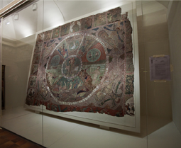 Tapestry of the Creation, 11th – 12th century, tapestry, 365 × 470 cm, Cathedral of Girona, Girona.